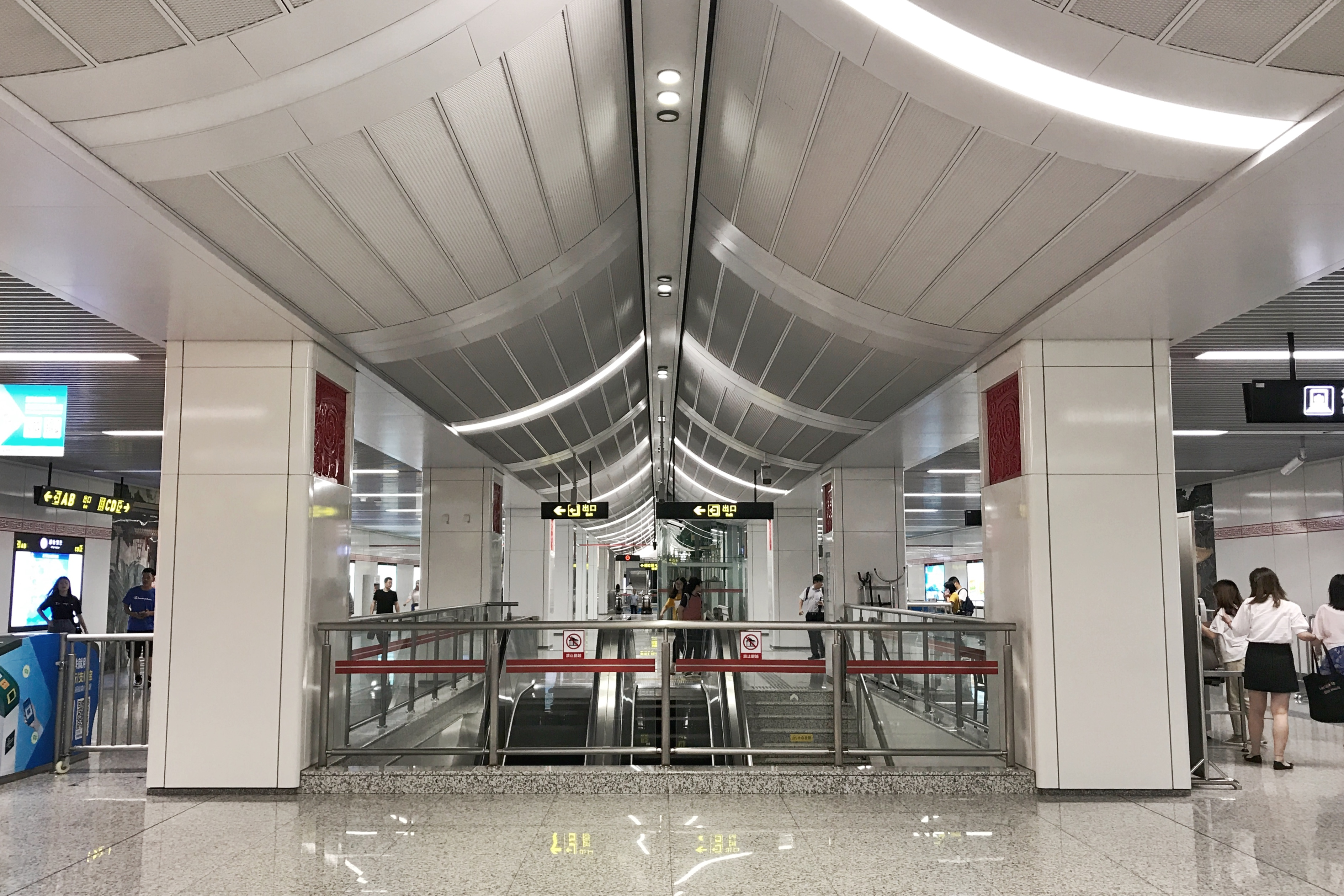 Concourse of Zhengzhou Metro Longzihu Station